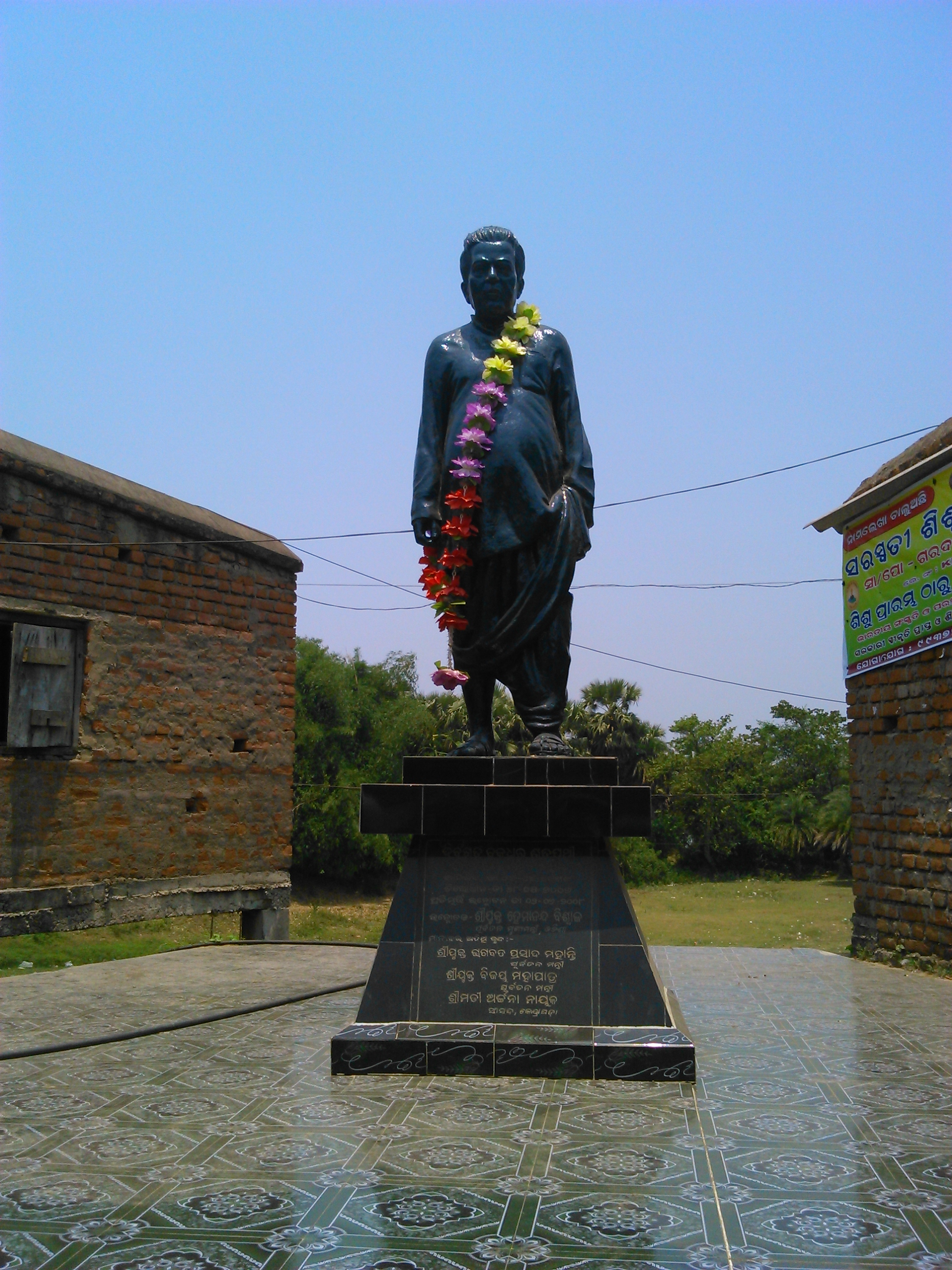 A statue of Chakradhara Satapathy situated at kalabuda village market odisha india